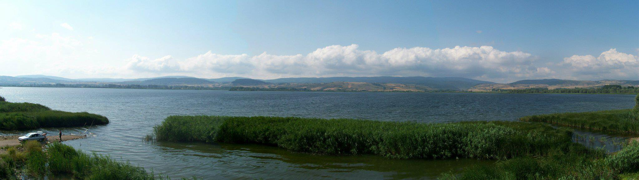 A view of the Lake Yeniçaga.